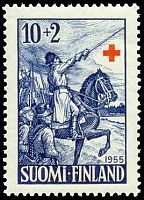 Swedish general von Döbeln - based on painings of Albert Edelfelt